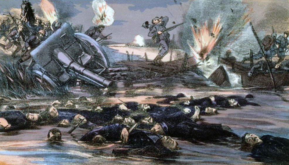 La grande guerre no. 20: La Bataille de l'Yser: admirable resistance des soldats belge